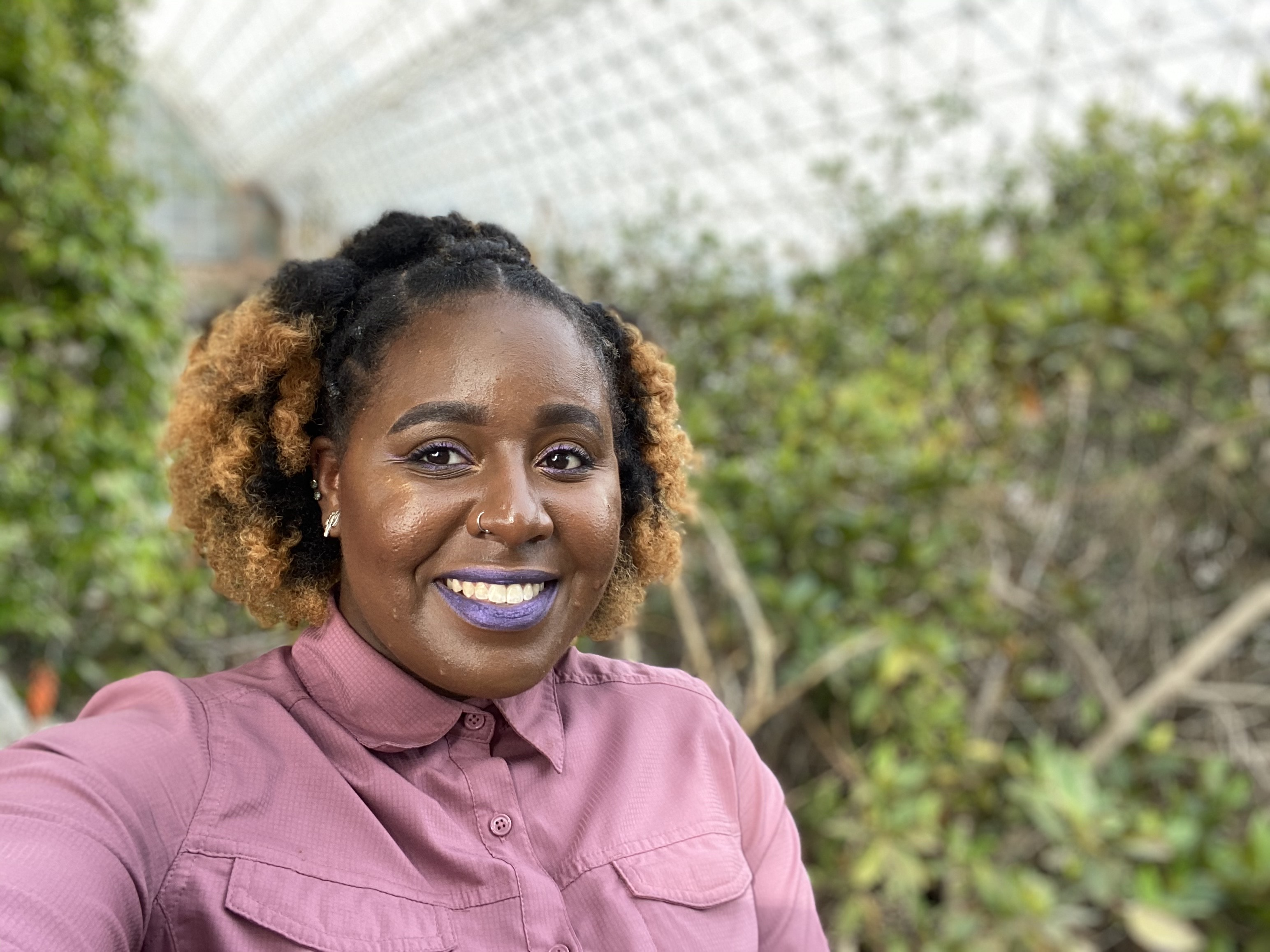 Image of herpetologist and science communicator, Earyn McGee, at Biosphere 2 in Oracle, Arizona.